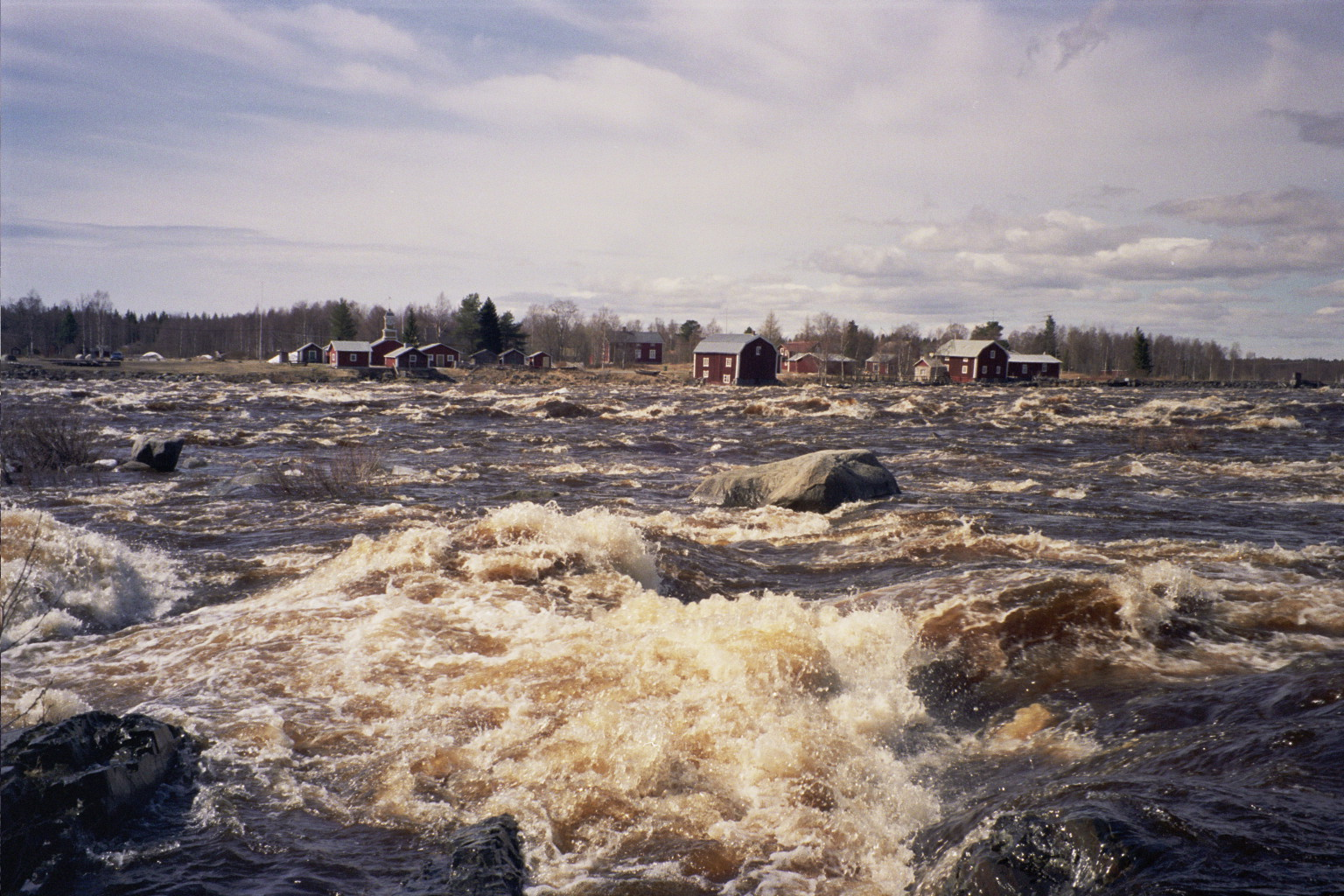 Kukkolankoski (Kukkola Rapids) in Torne River, the river that borders Finland and Sweden. The photo taken from the Finnish side.